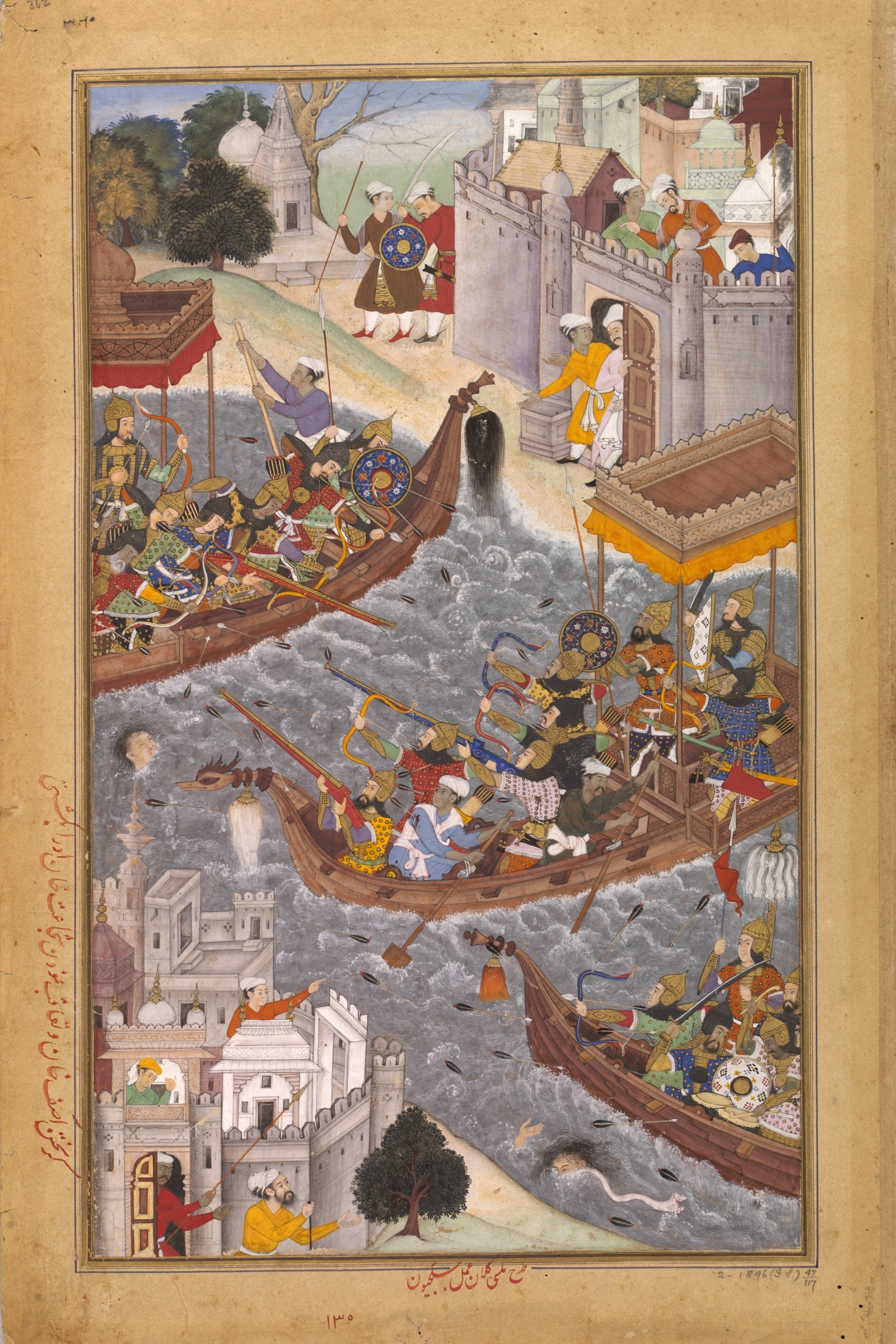 This painting by the Mughal court artists Tulsi the Elder and Jagjivan from the Akbarnama (Book of Akbar) depicts Shuja’at Khan pursuing Asaf Khan on the River Ganges in north-east India. Asaf Khan was vizier to the Mughal emperor Akbar (r.1556–1605). He was also a highly effective military leader but, for reasons that are obscure in the text of the Akbarnama, kept treasure that the Mughal forces had seized during a successful campaign in 1565. He tried to flee with his supporters across the Ganges, where Akbar’s forces, led by the general Shuja’at Khan, caught up with him. A fierce confrontation followed, depicted in this illustration, but Asaf Khan escaped. In 1567, he sent messengers to the court asking for forgiveness, which was granted. The Akbarnama was commissioned by Akbar as the official chronicle of his reign. It was written in Persian by his court historian and biographer, Abu’l Fazl, between 1590 and 1596, and the V&A’s partial copy of the manuscript is thought to have been illustrated between about 1592 and 1595. This is thought to be the earliest illustrated version of the text, and drew upon the expertise of some of the best royal artists of the time. Many of these are listed by Abu’l Fazl in the third volume of the text, the A’in-i Akbari, and some of these names appear in the V&A illustrations, written in red ink beneath the pictures, showing that this was a royal copy made for Akbar himself. After his death, the manuscript remained in the library of his son Jahangir, from whom it was inherited by Shah Jahan.